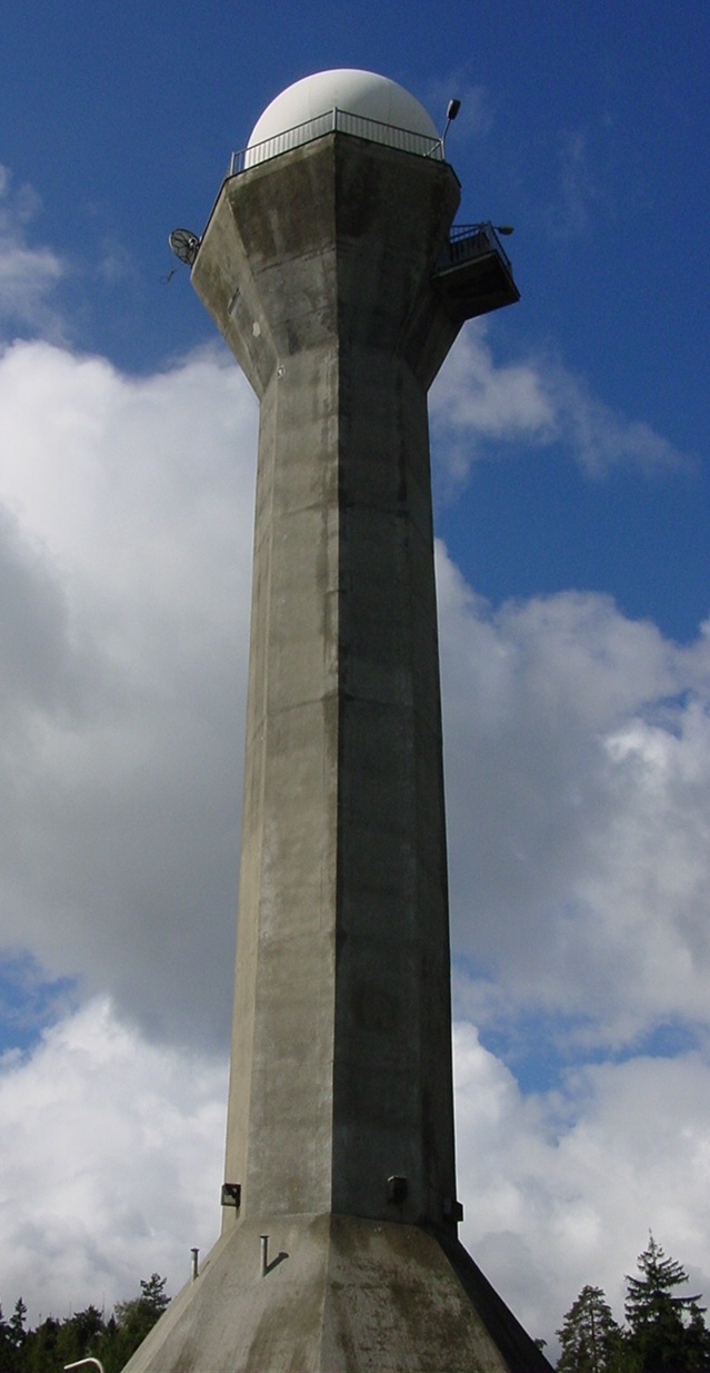 Weather radar Ramza near Katowice, Poland